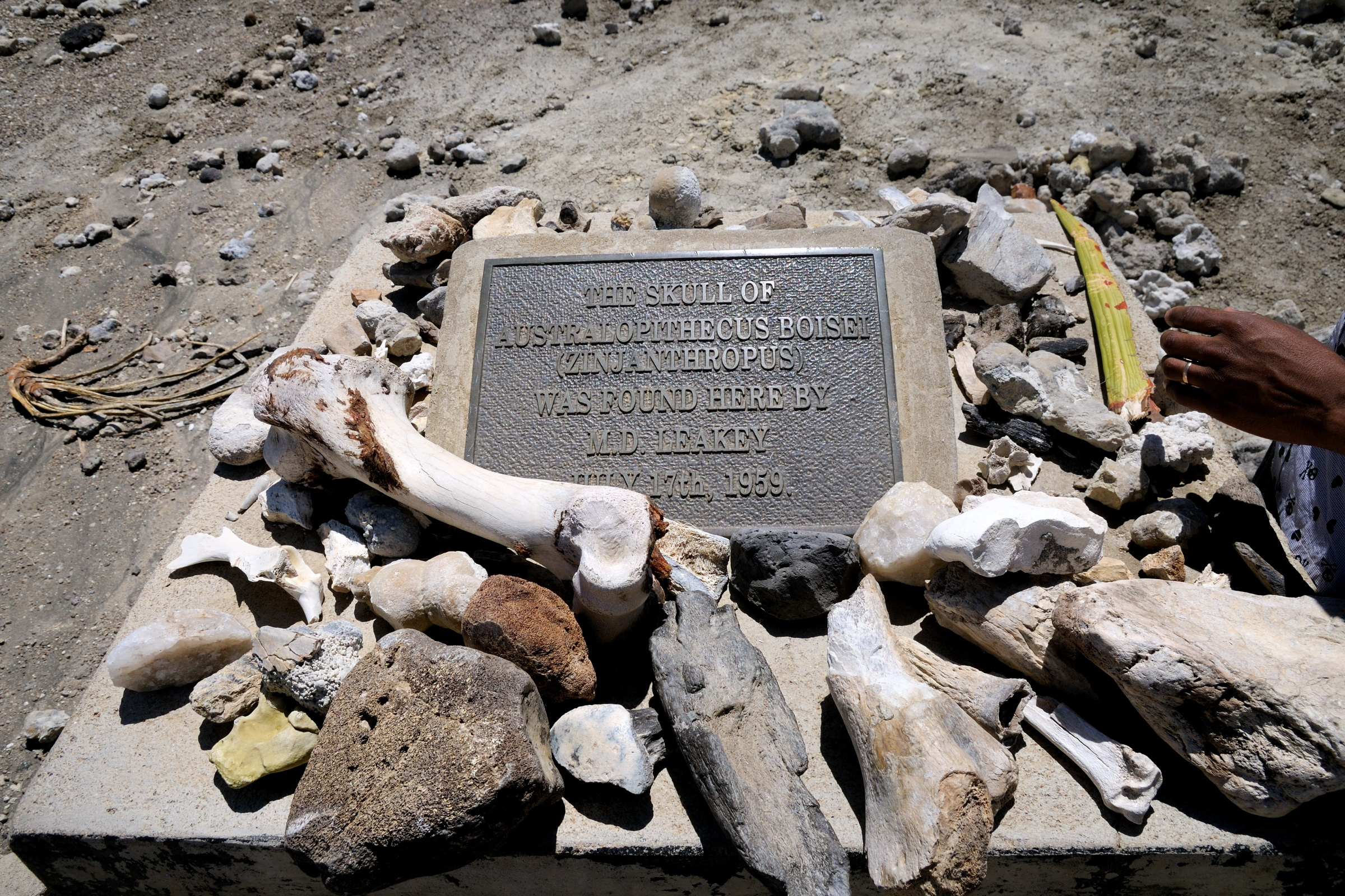 Marker for discovery of Australopithecus boisei (now Paranthropus boisei), skull in Olduvi Gorge area in Tanzania. July, 17th, 1959